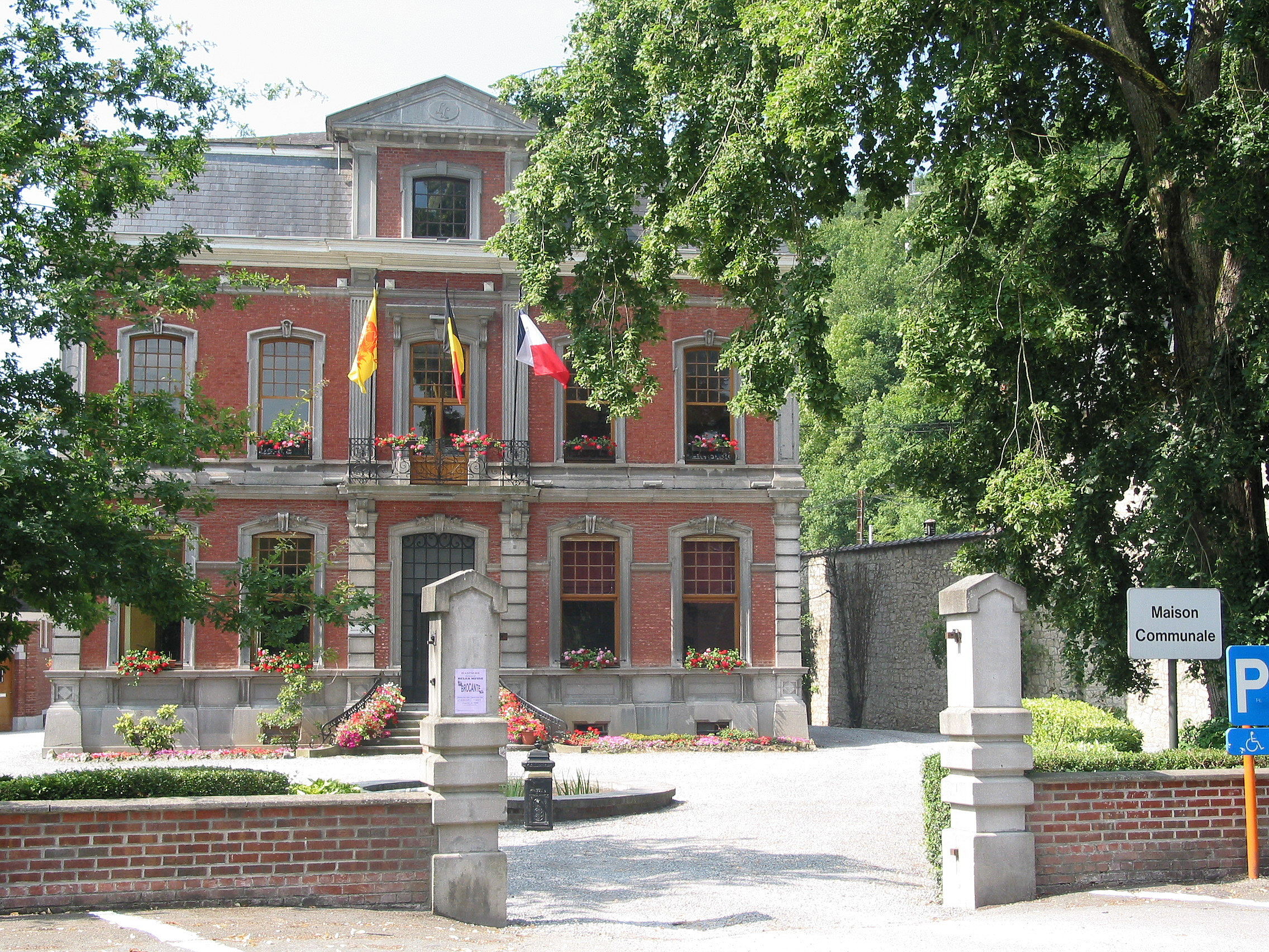 Hastière-Lavaux (Belgium), Avenue Guy Stinglhamber, 6l - the city hall of Hastière.